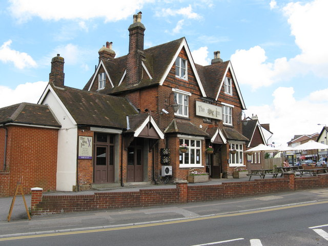 The Village Inn, Caterham This public house was formerly called the Caterham Arms, and it was a place of resort for soldiers based in the nearby Coldstream Guards barracks. On 28 September 1973, the IRA detonated a device in the pub, with the intention of killing British soldiers, but fortunately all present escaped with their lives.